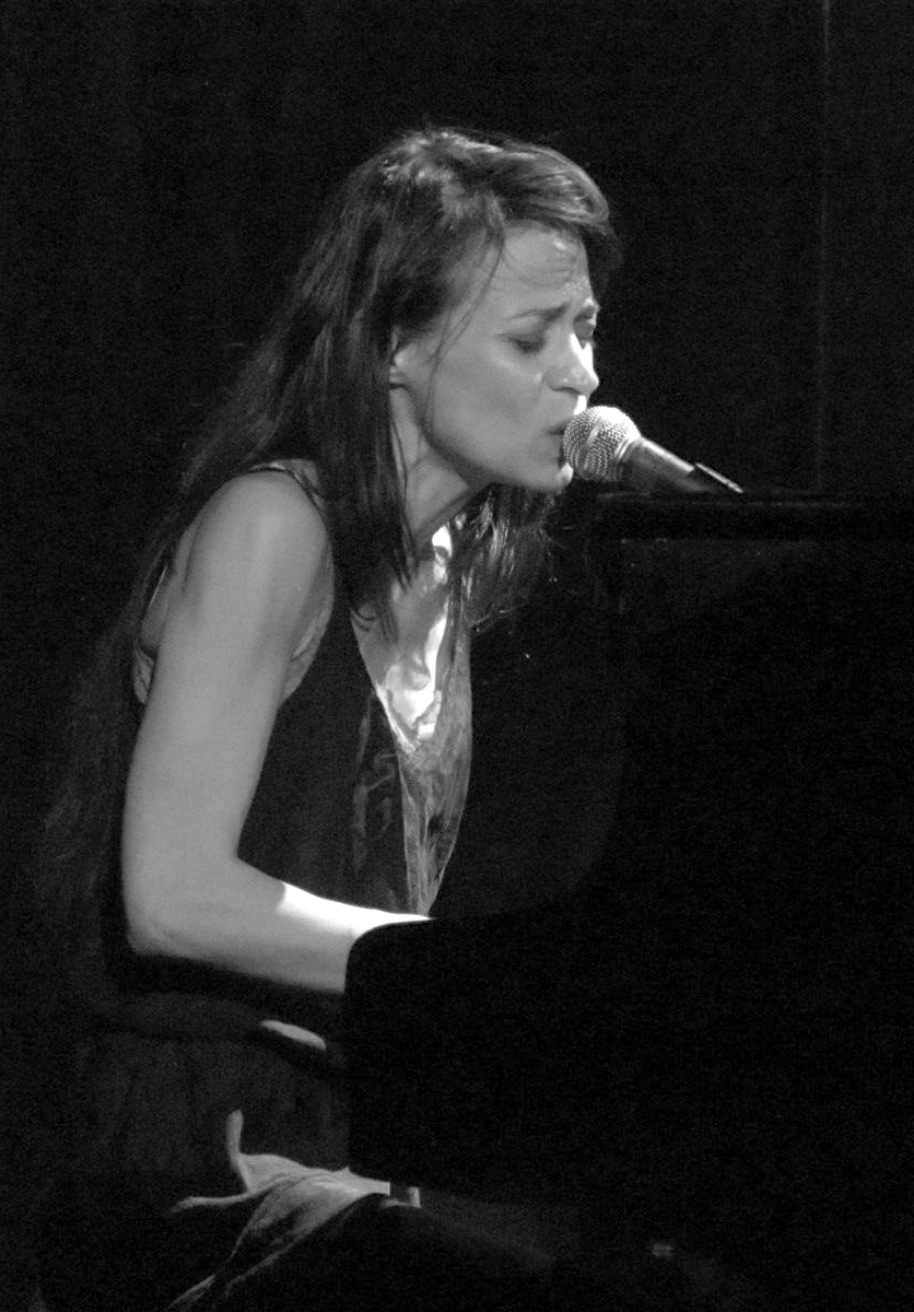 Fiona Apple performing October 16, 2012 at Terminal 5 in New York City.